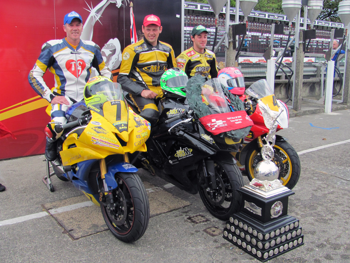 (Description : TT Grandstand - Senior Manx Grand Prix 2011 Manx Grand Prix Date : 31st August 2011 Source : Agljones at en.wikipedia Permission See below.)